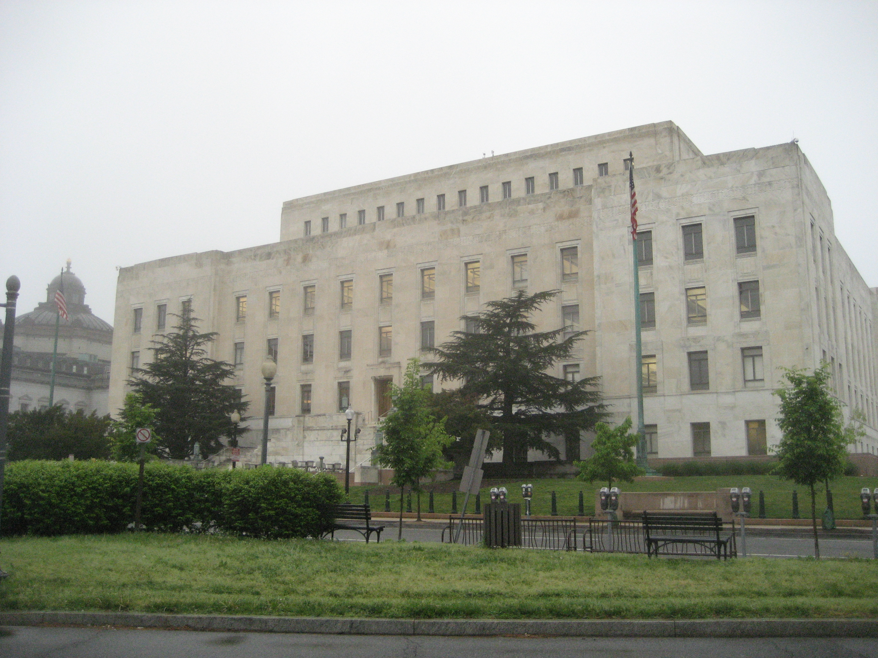 View on John Adams Building Library of Congress, Washington DC, from Independence Avenue